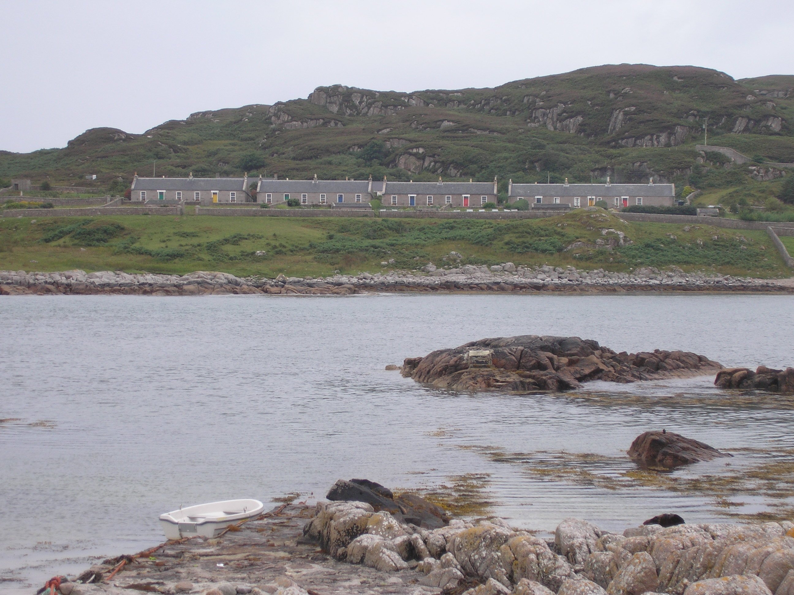 The Street - the NLB cottages on Erraid, Scotland from Fidden campsite